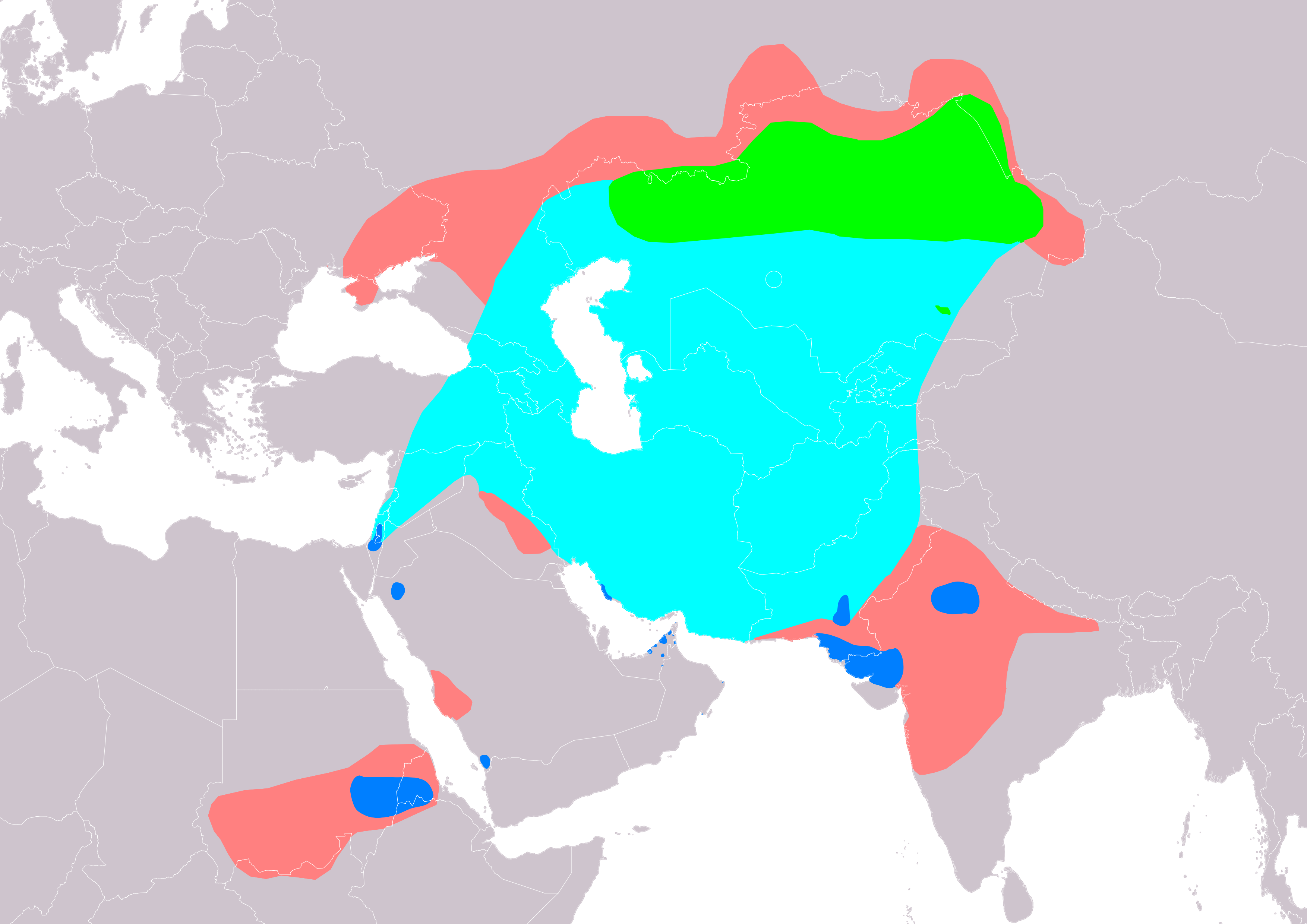 Distribution map of sociable lapwing (Vanellus gregarius) according to IUCN version 2020.1 (Compiled by: BirdLife International and Handbook of the Birds of the World (2019) 2019.); key: Legend: Extant, breeding (#00FF00), Extant, passage (#00FFFF), Extant, non-breeding (#007FFF), Probably extinct (#FF8080)